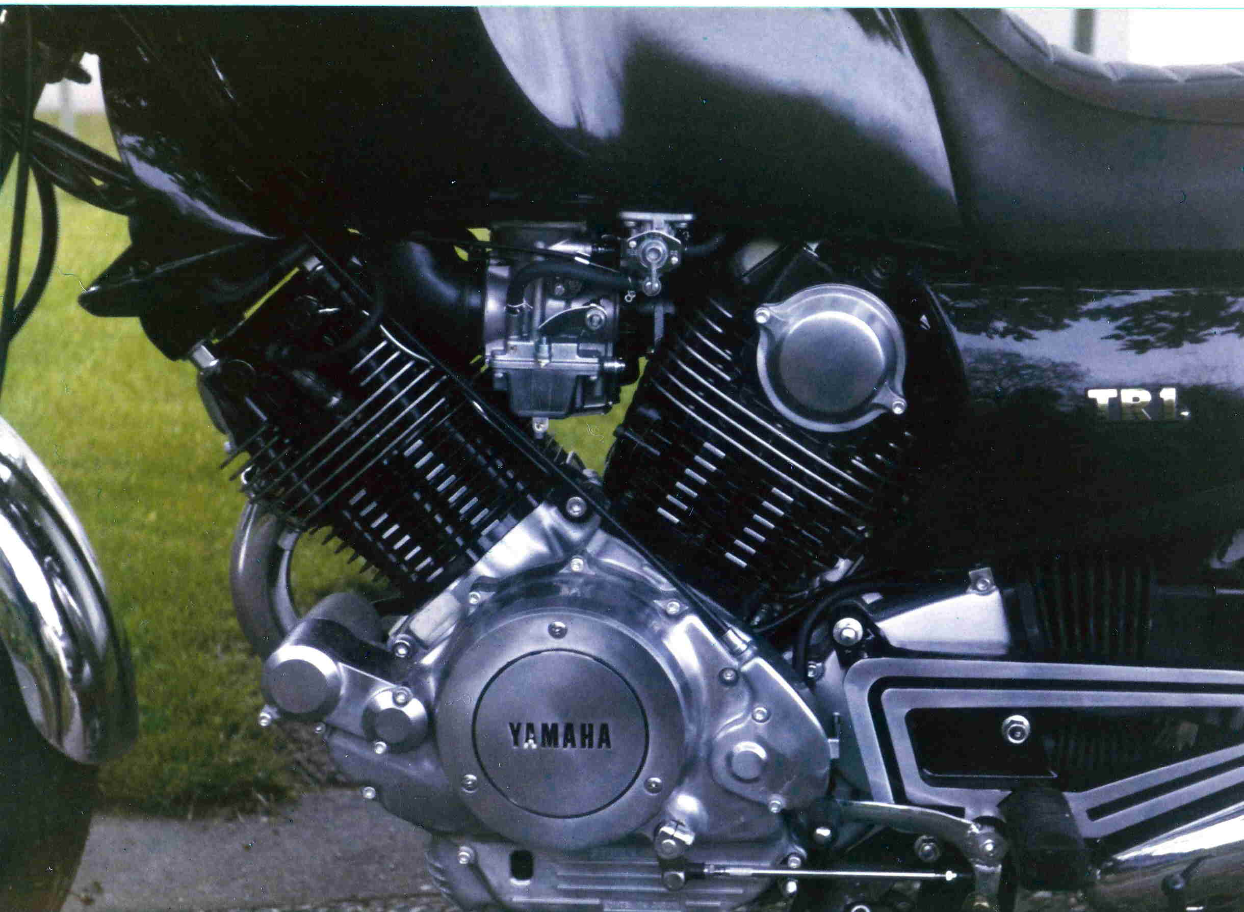 Yamaha TR1 - engine